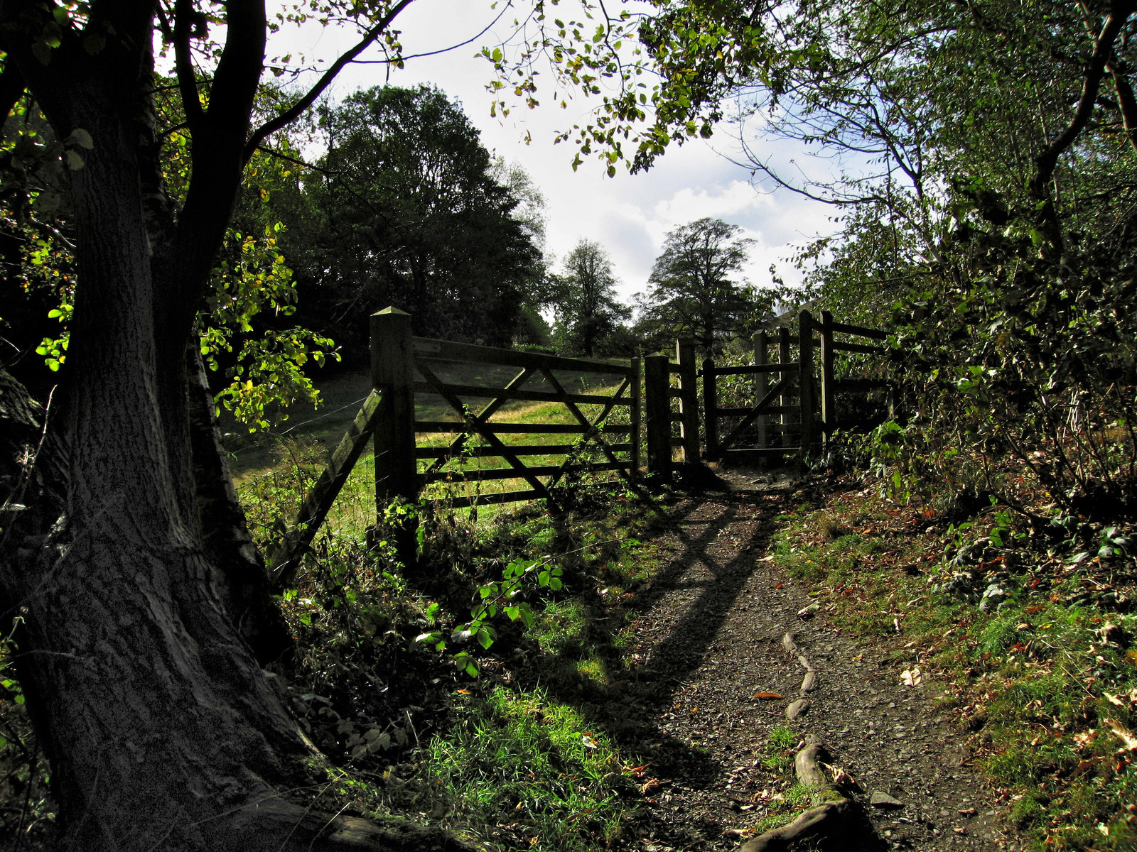 Access point for Rectory Wood